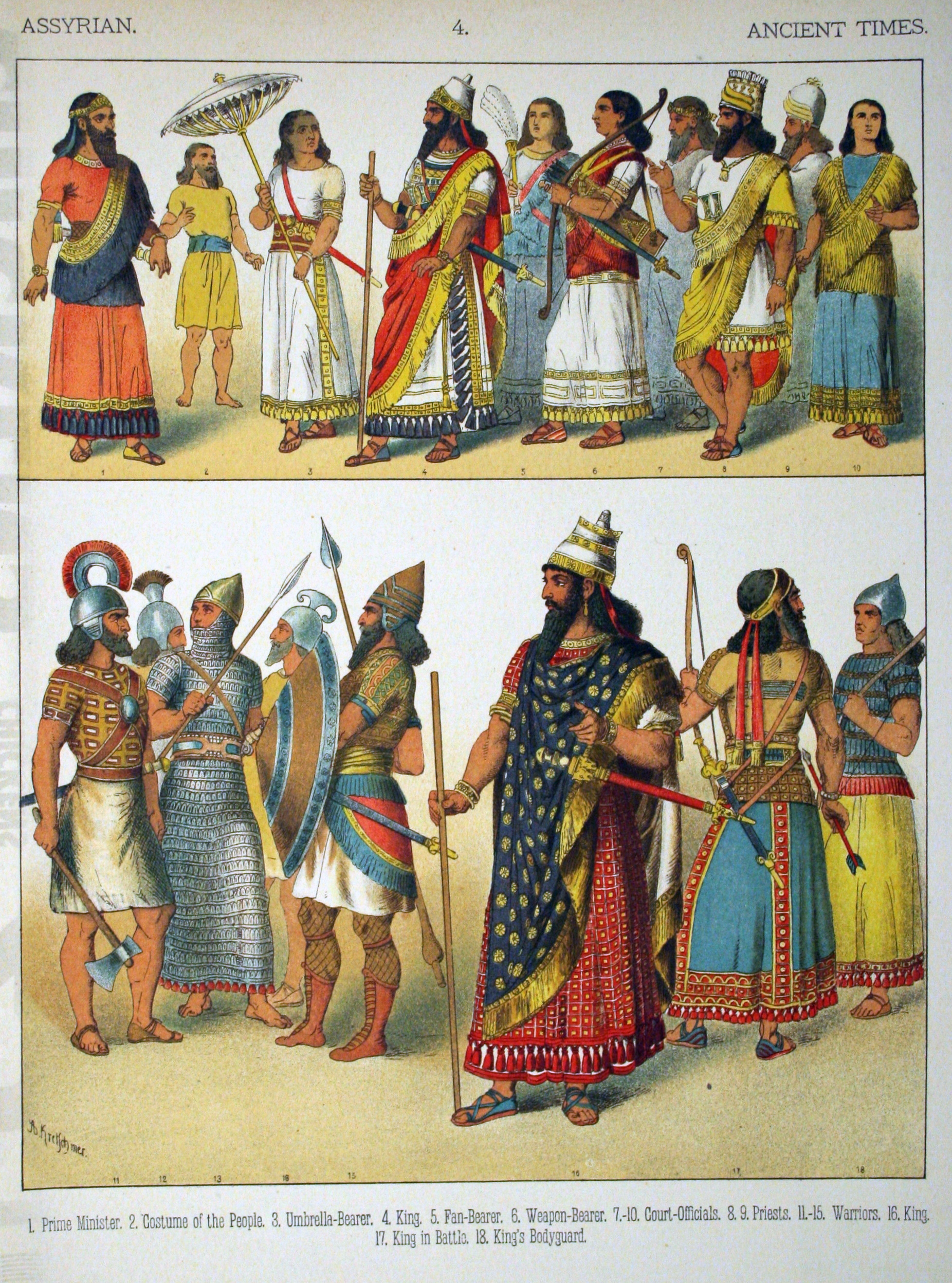 Ancient Times, Assyrian